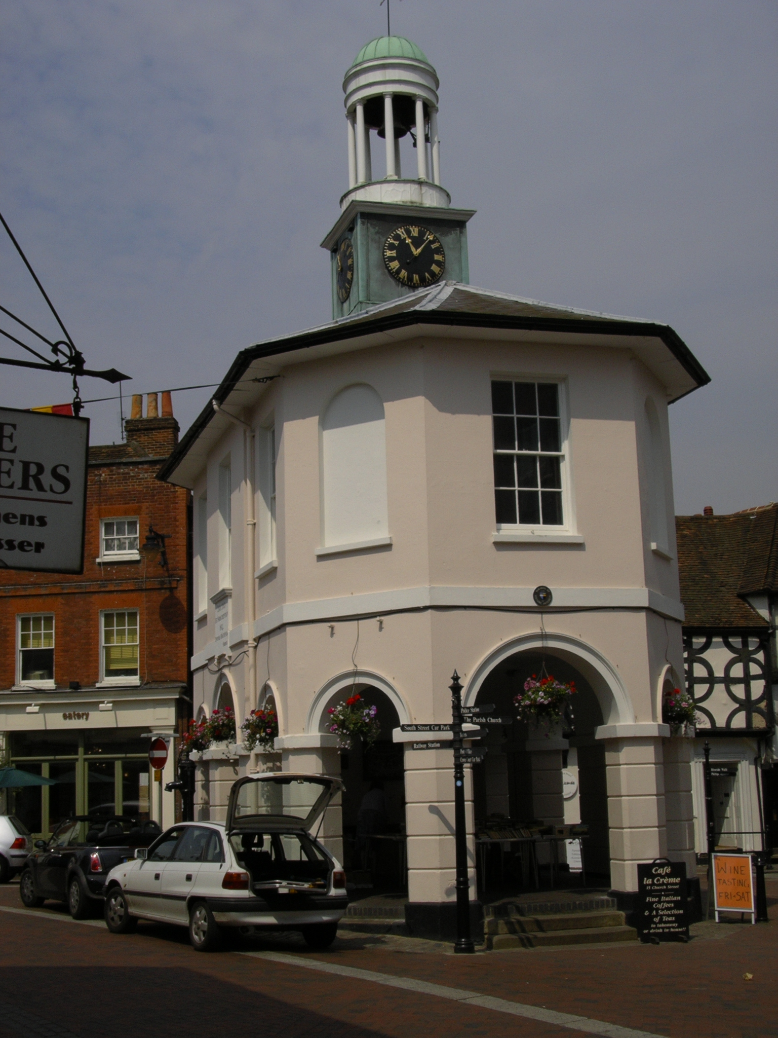 Photo I took in June 2005.